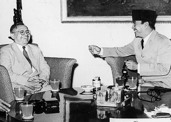 A picture of Kasimo when met the first president of Indonesia, Soekarno.